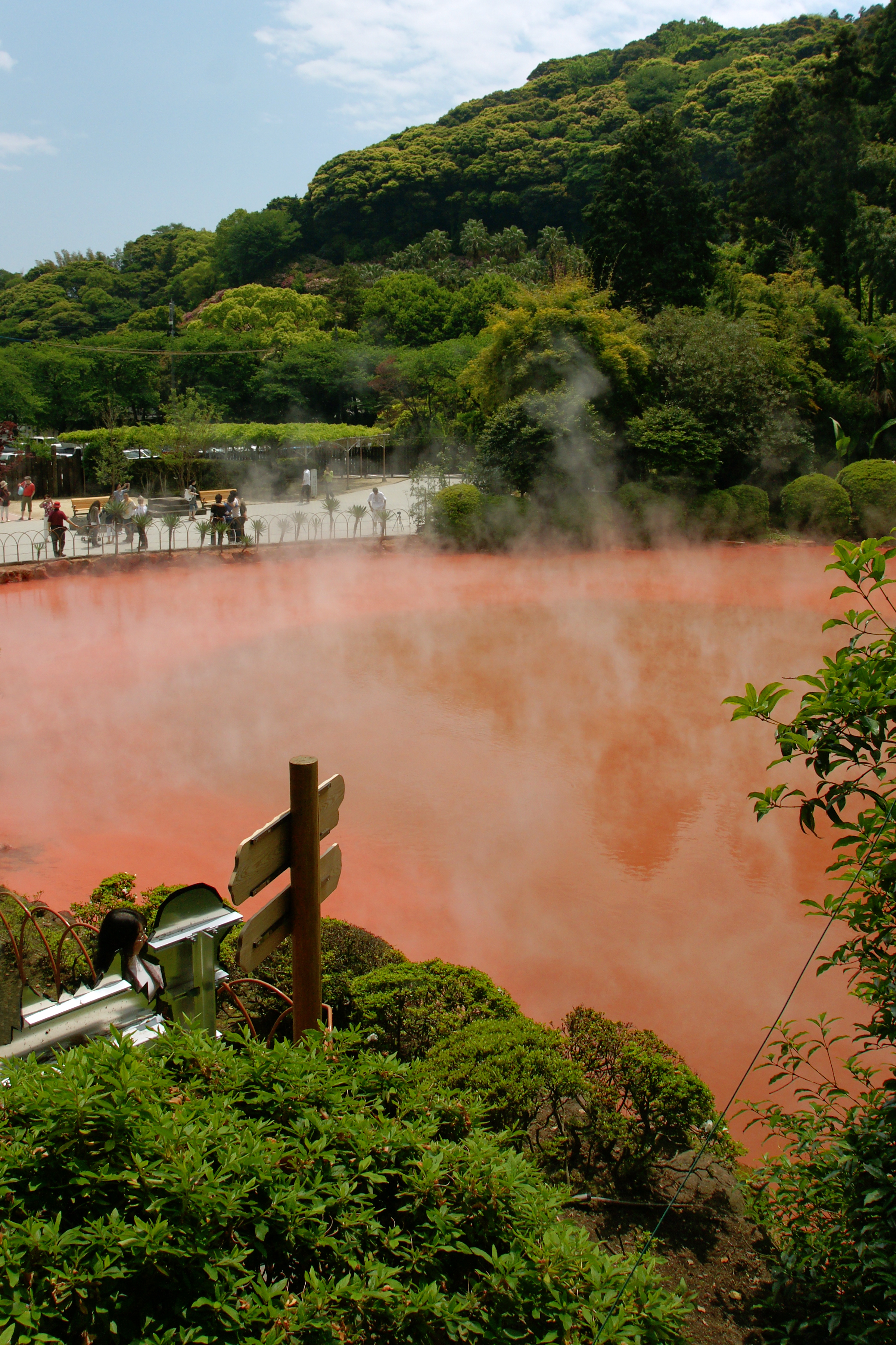 Chinoike Jigoku of Beppu Jigokumeguri, Beppu, Oita prefecture, Japan